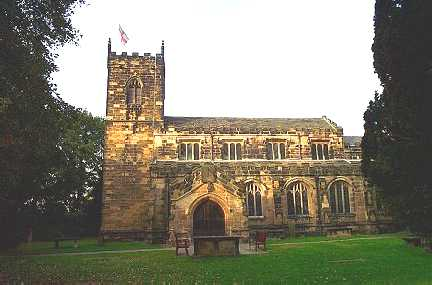 Wragby, the Church of St Michael & Our Lady